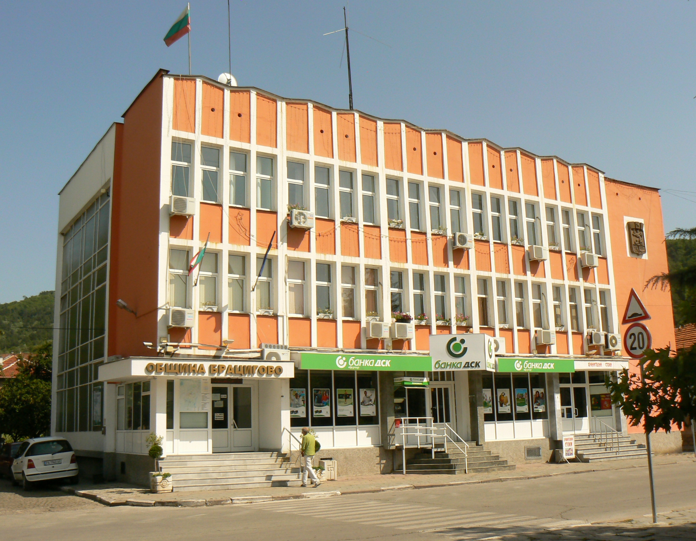 The building of Bratsigovo Municipality, Bulgaria.